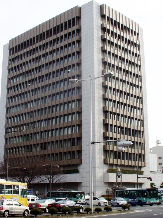 Headquarters of the 77 Bank, or the Shichiju-shichi Ginko, on Aoba-dori Avenue, Sendai, Japan.